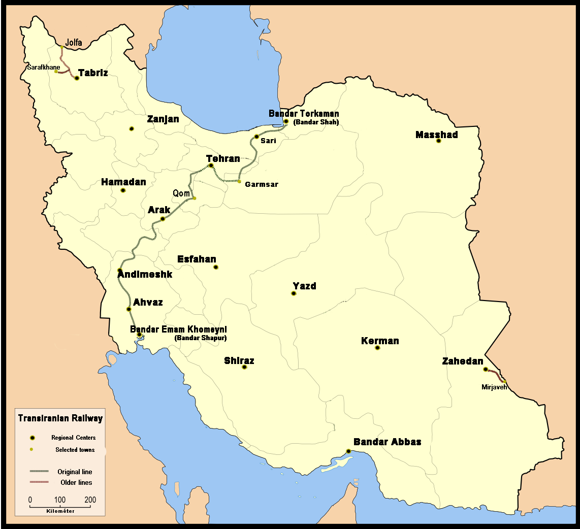 Trans-Iranian Railways as of 1938, with English placenames